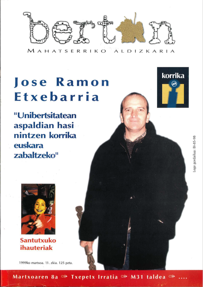 Berton aldizkariaren azala (1999-03-11)